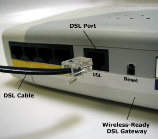 DSL cable into modem